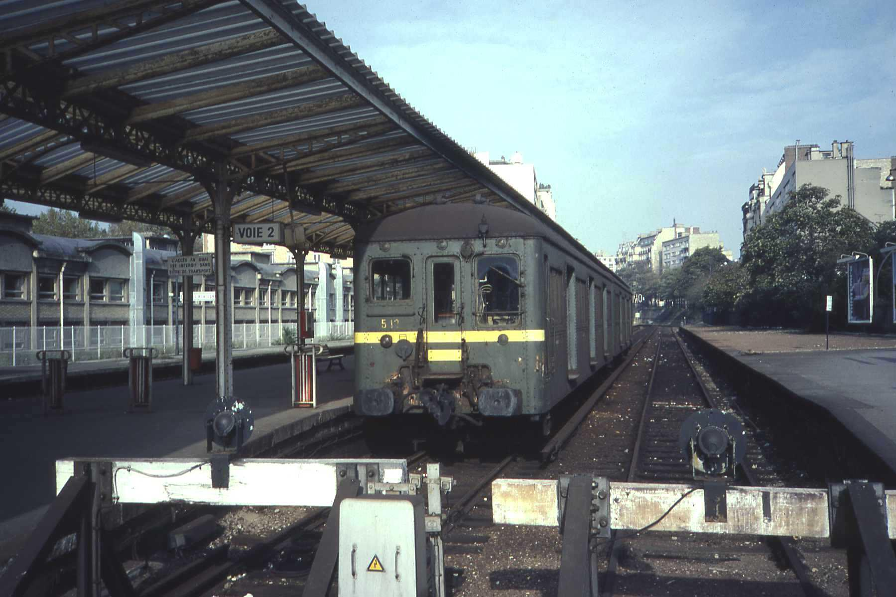 Endstation Porte d'Auteuil of the closed "Ligne d'Auteuil" line. Third rail electrification.